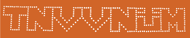 Logo of Estonian band Tõele Näkku Vaadates Võib Näha Ükskõik Mida